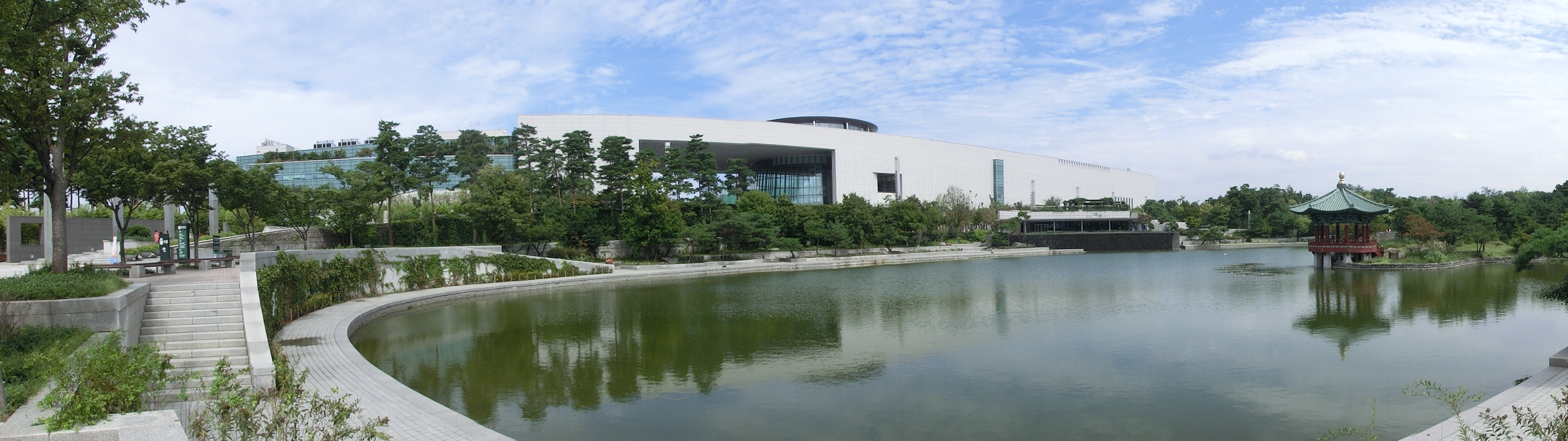 National museum of Korea Exterior. The picture is taken northbound inside the museum area.